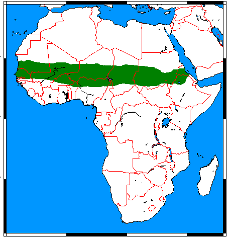 Pale Fox (Vulpes pallida) range map, made by me with help of Map depending on the range map at IUCN red list.